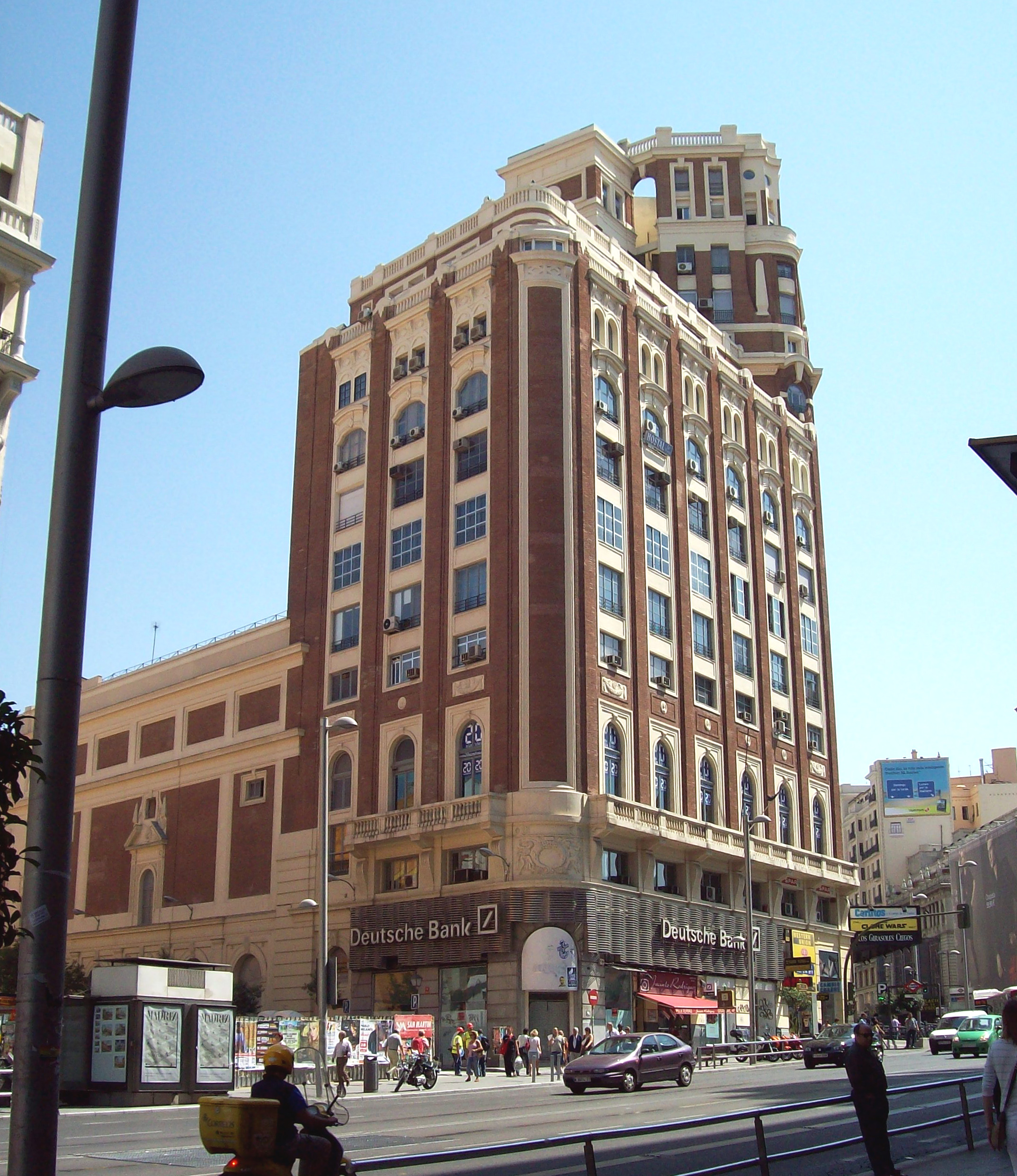 View of the Palacio de la Prensa (literally "Press Palace") in Madrid (Spain) from Gran Vía (avenue).